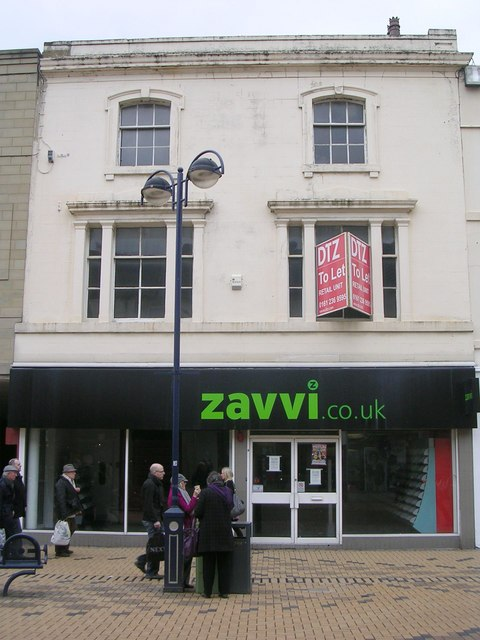 Zavvi - New Street